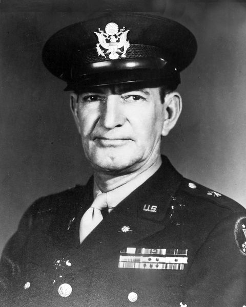 Brigadier General Kendall “Wooch” Jordan Fielder (August 1, 1893 – April 13, 1981) was an influential World War II officer in the United States Army, who served in Hawaii at the time United States' entry into World War II, and testified before Congress in favor of statehood. At the time of the attack on Pearl Harbor, then Lieutenant Colonel Fielder was the U.S. Army G-2 Chief of Intelligence and Security. Fielder later helped to form several Japanese Americans formations such as Varsity Victory Volunteers, 100th Infantry Battalion and 442nd Regimental Combat Team.